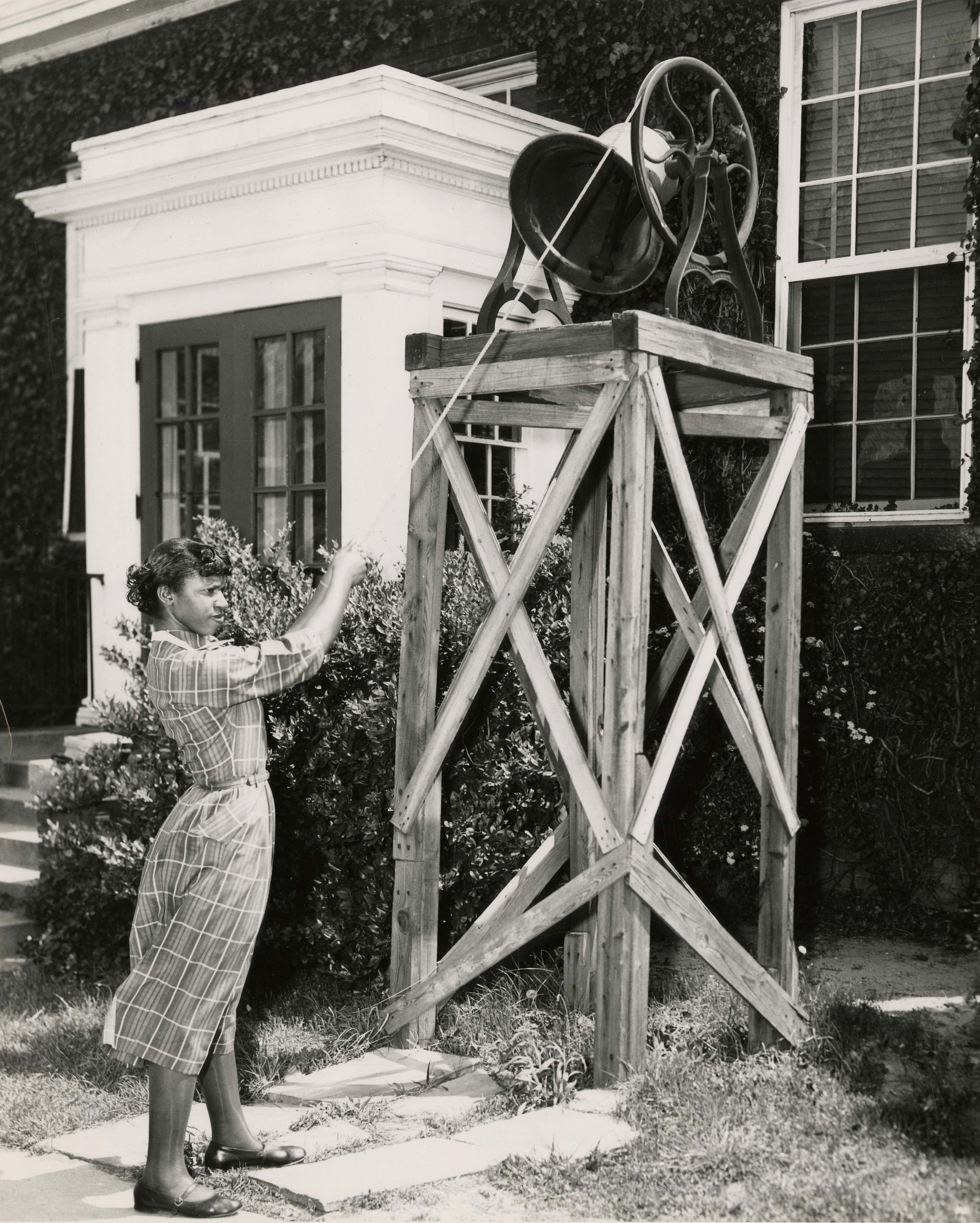 The original bell encasing (photo taken 1956)